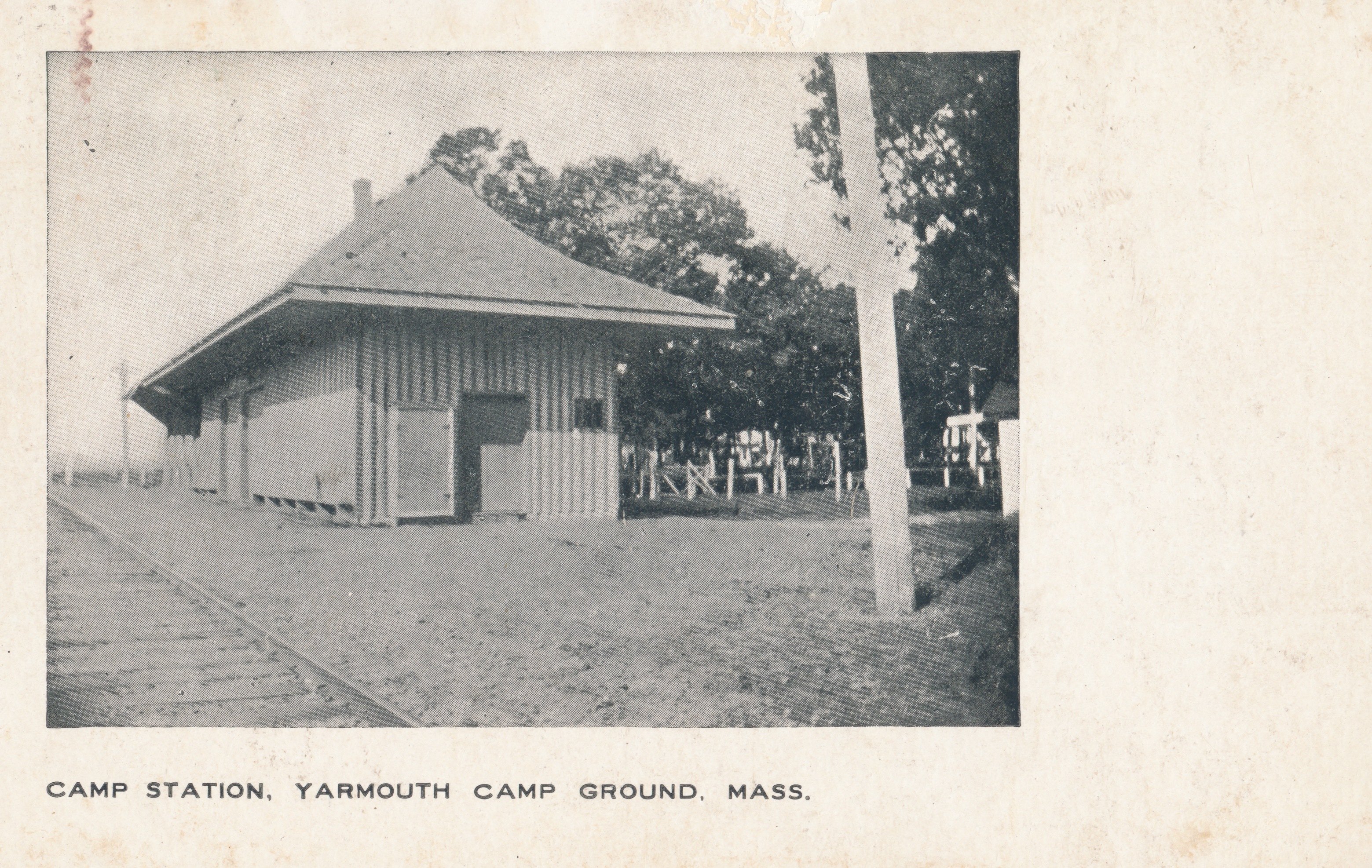 An early postcard showing the Yarmouth Camp Ground train station in Yarmouth, Massachusetts on Cape Cod.